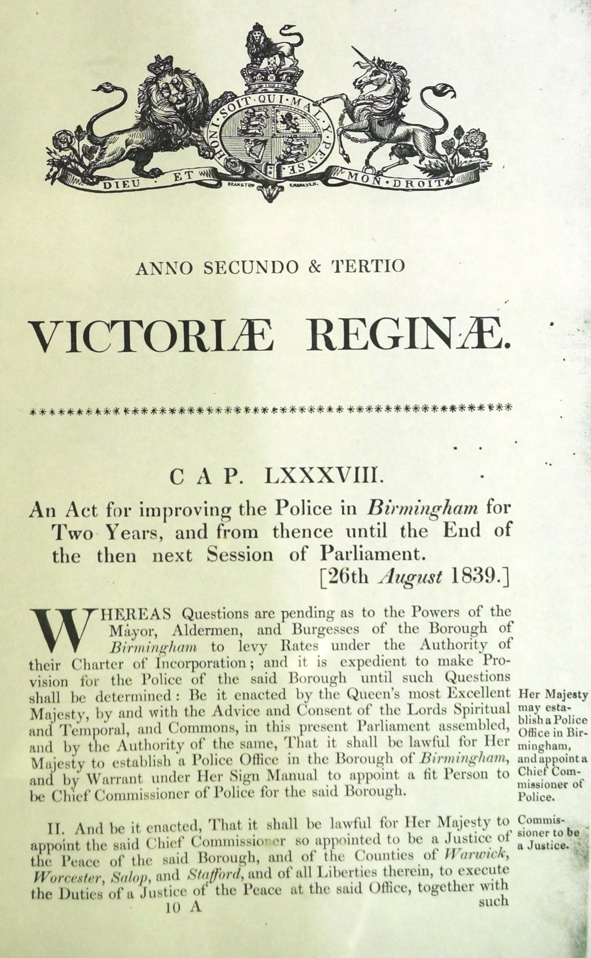 First page of the Act of Parliament which created the Birmingham Police displayed in West Midlands Police Museum, Sparkhill, Birmingham, England.